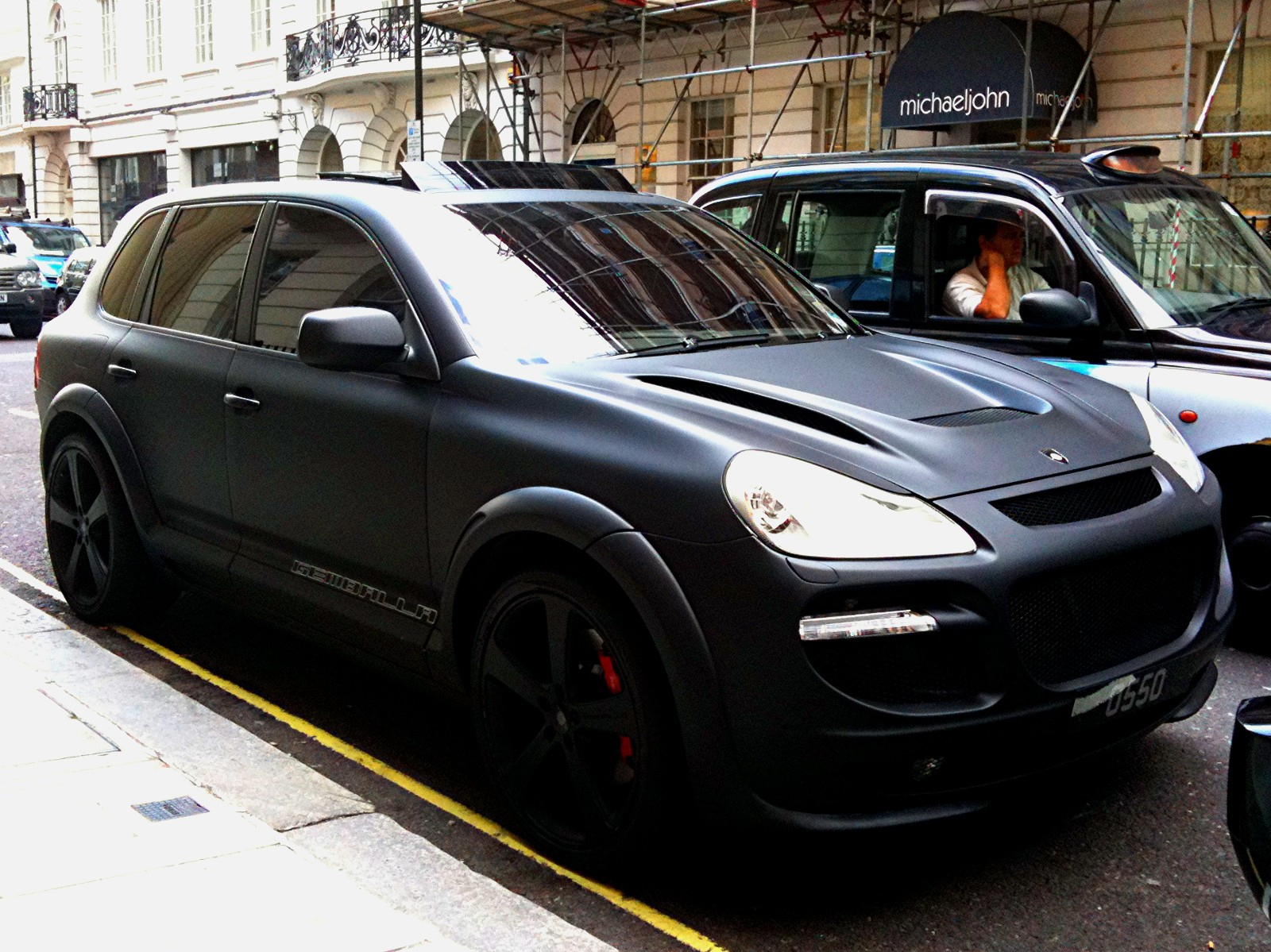 A Porsche Cayenne modified by Gemballa